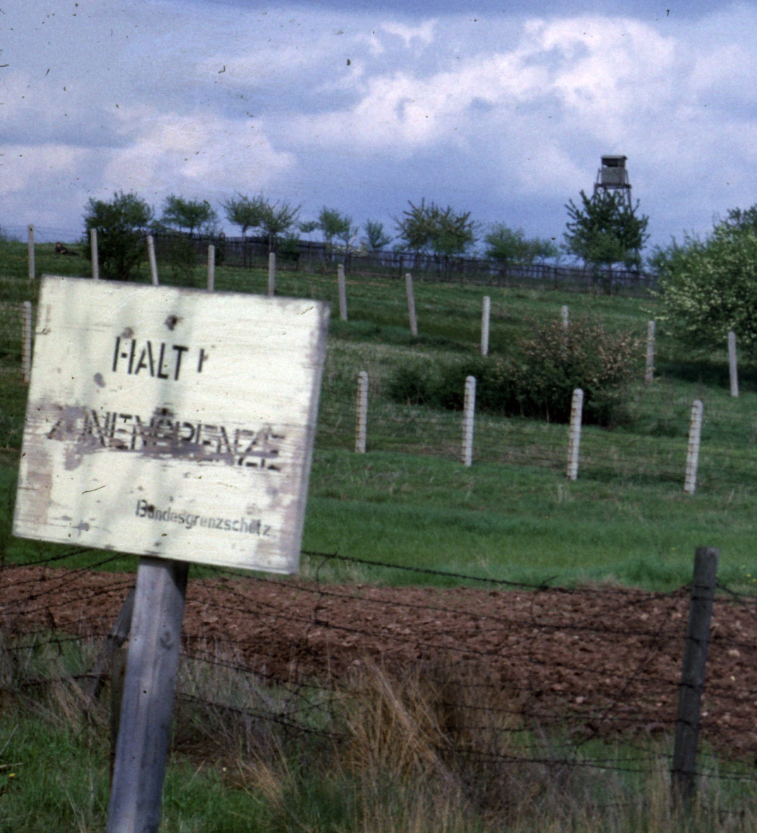 The East German border. (Cropped and processed by ChrisO). Ergänzung: der Kamerastandort könnte sich westlich von Ecklingerode im Eichsfeld befunden haben (rekonstruiert nach Flickr-Bild Nr. 335748513 am gleichen Standort)